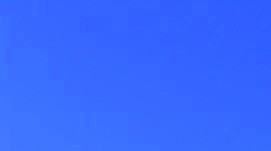 solid blue rectangle